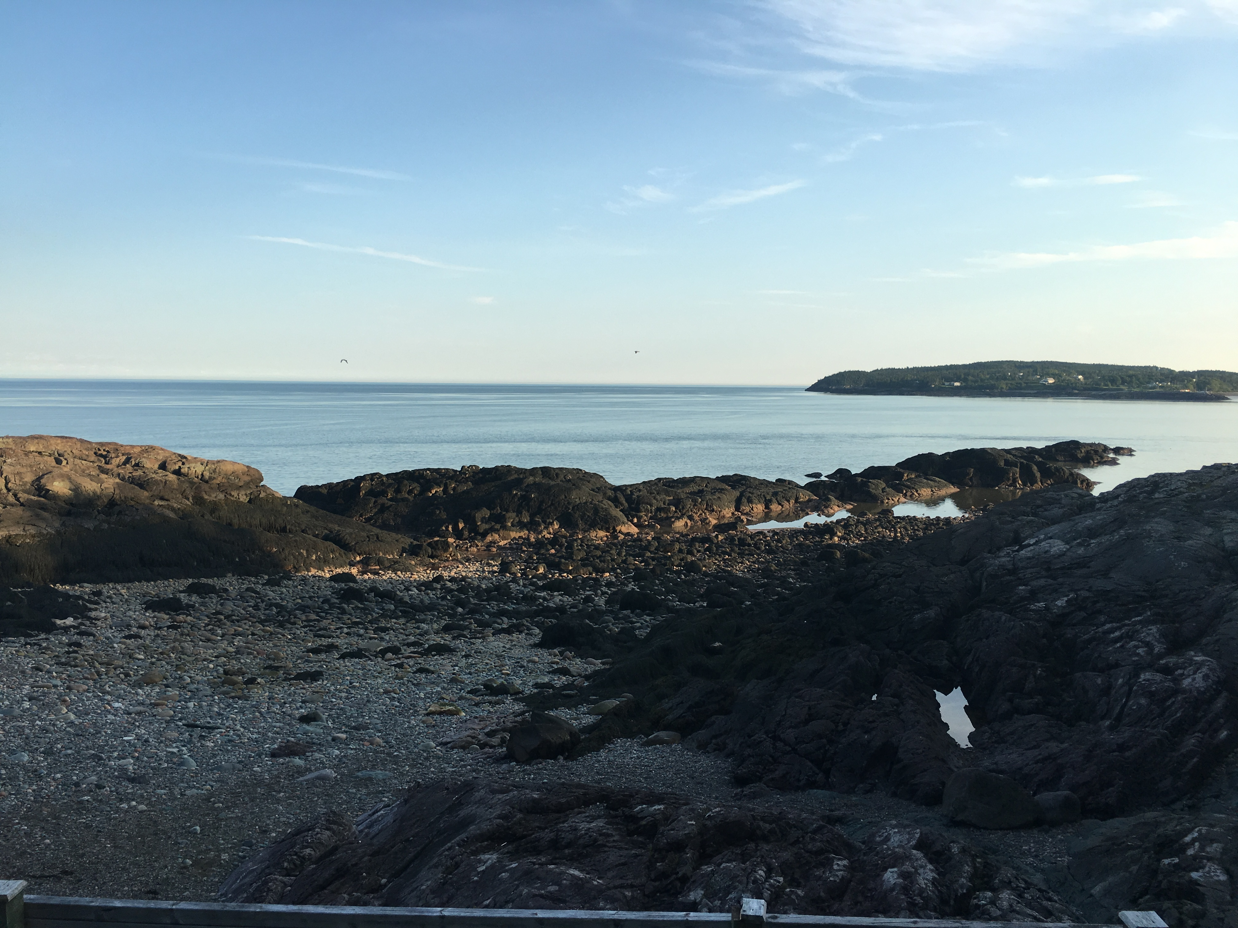 A picture taken at the Irving Nature Park in New Brunswick